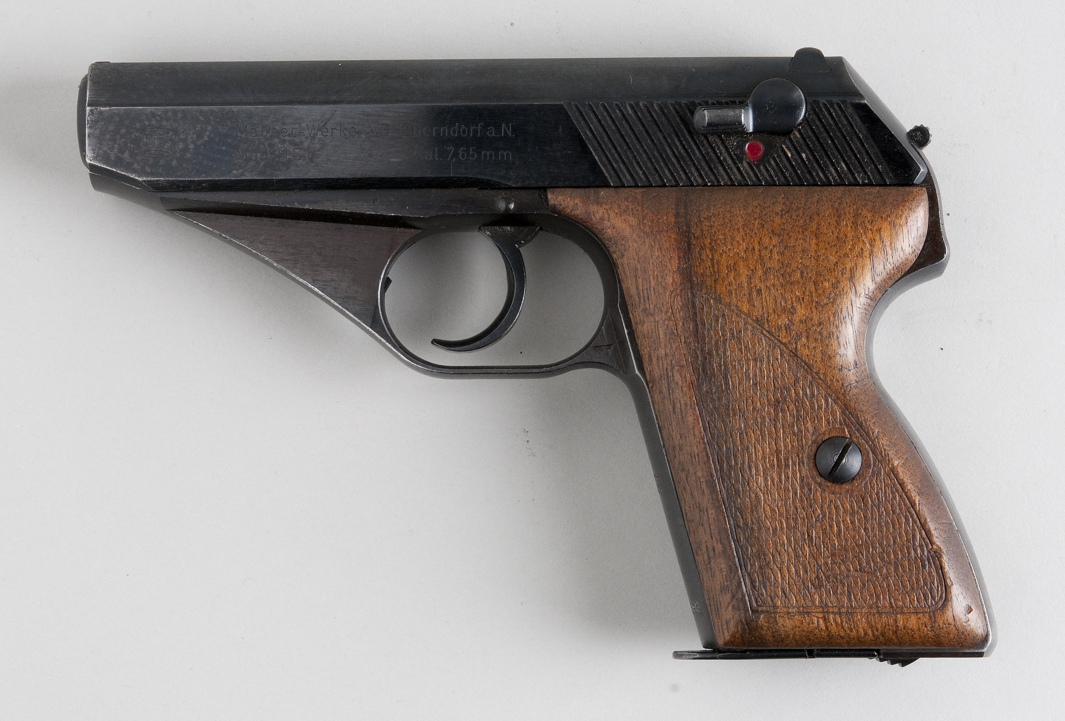 Mauser HSc From flickr user handvapensamlingen - Pistols used in Norway.